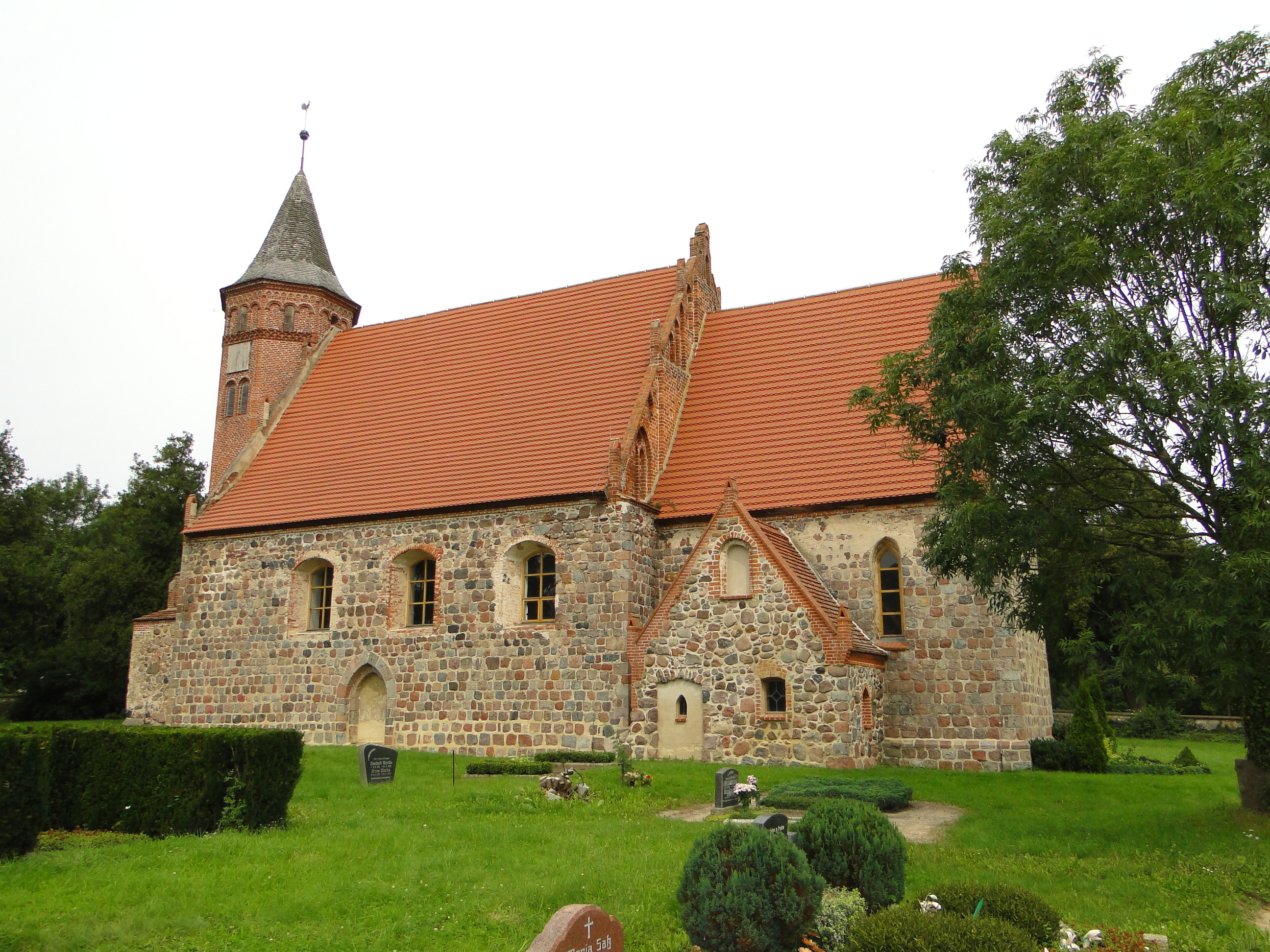 Church in Roga, district Mecklenburg-Strelitz, Mecklenburg-Vorpommern, Germany